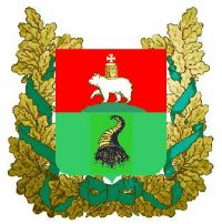 Coat of Arms of Kungursky rayon, Perm krai, Russia, 1999